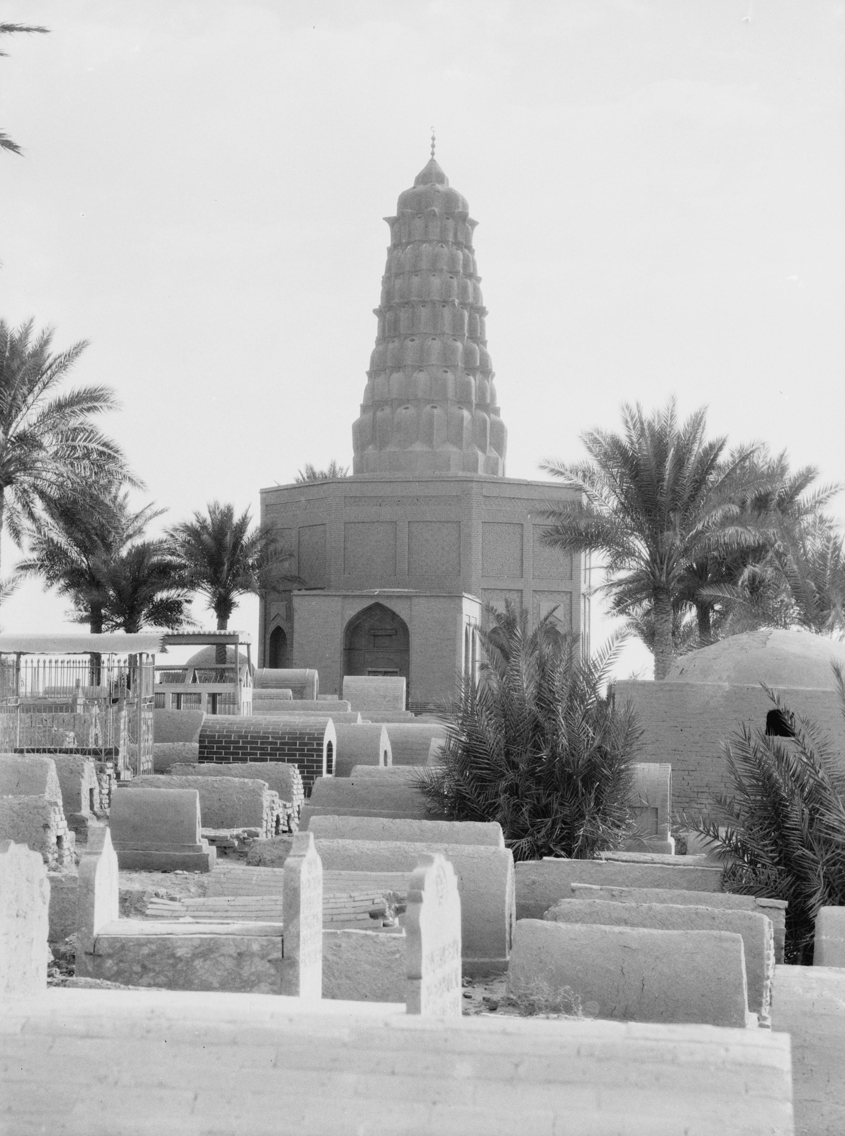 Zumurrud Khatun Tomb (1200 CE.), in cemetery at Baghdad. from Matson Collection.